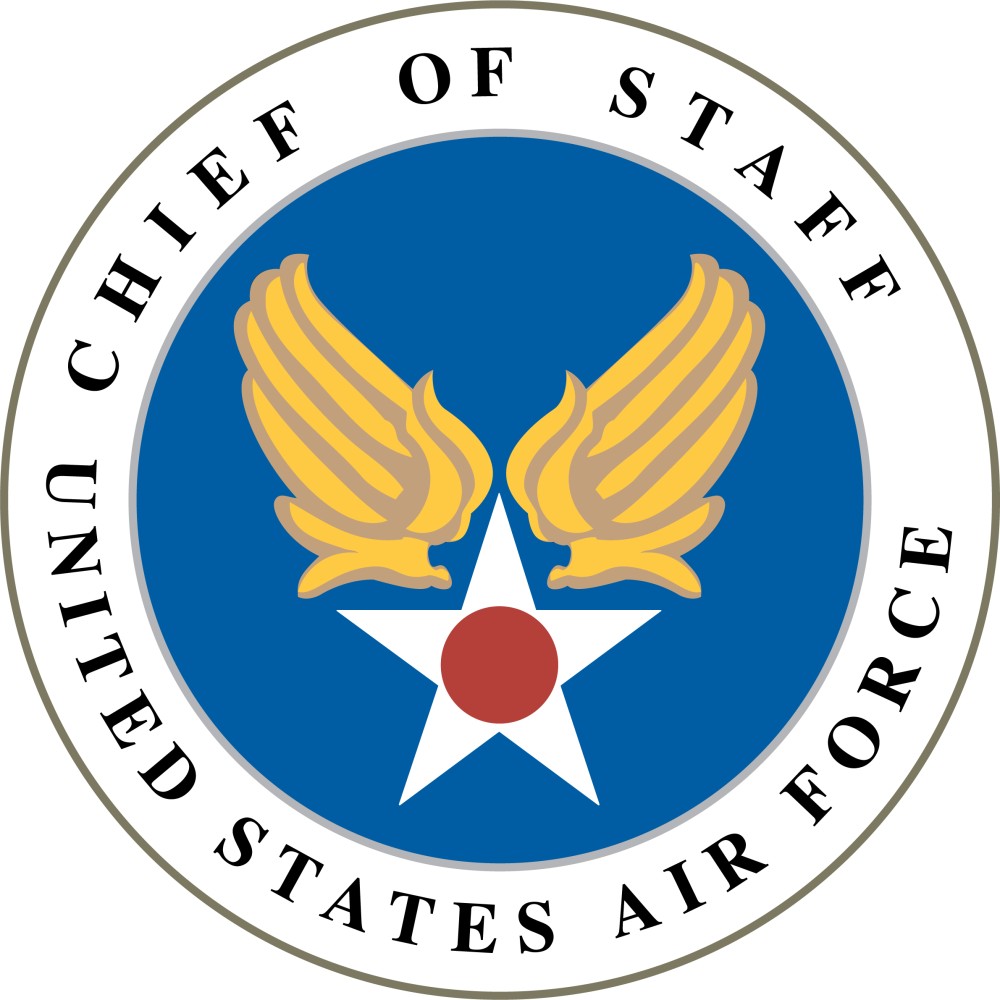 Seal of the Chief of Staff of the United States Air Force